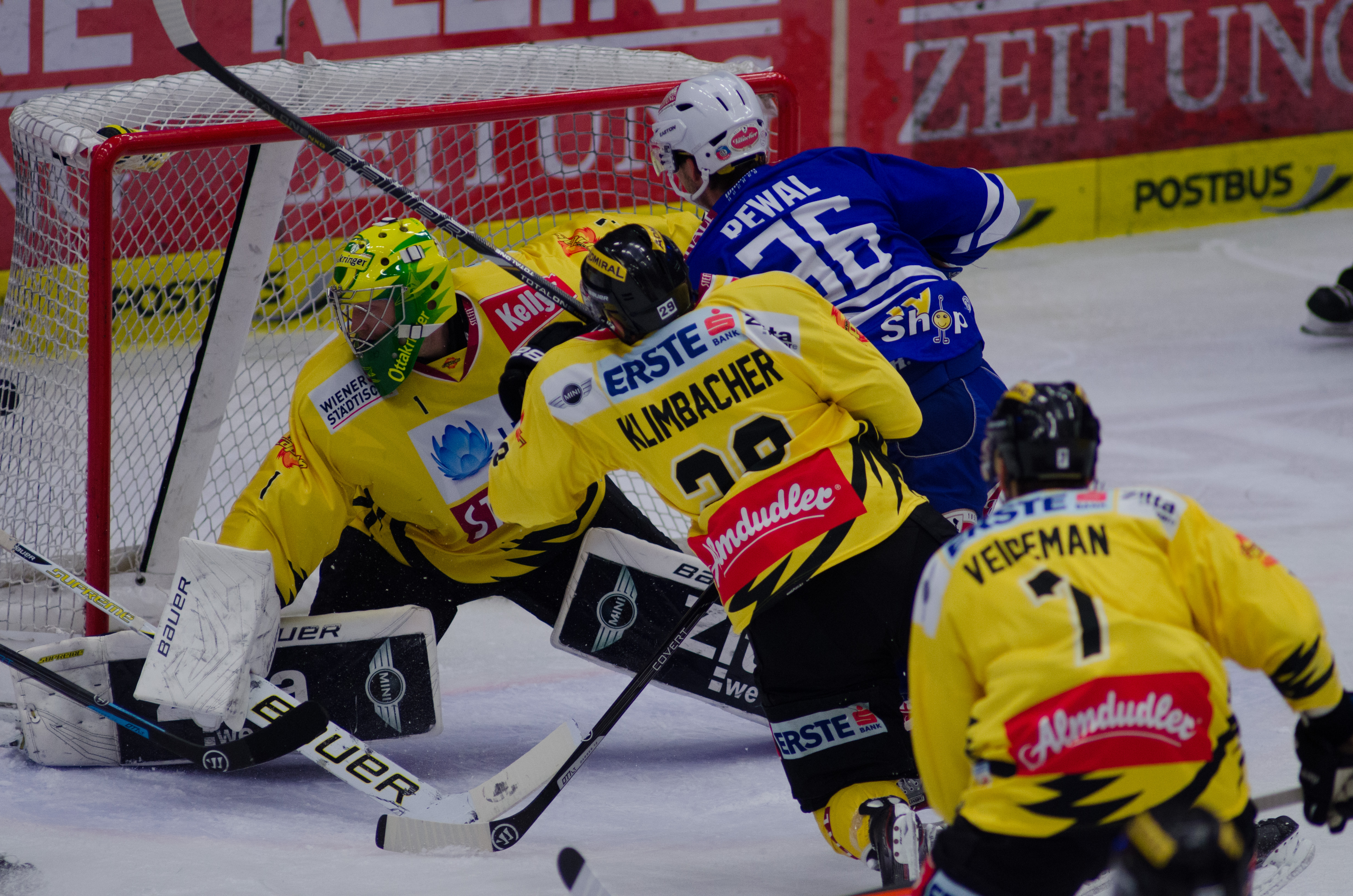 03.11.2013,Stadthalle Villach, AUT, EBEL, 33. Runde, EC VSV vs. UPC Vienna Capitals, im Bild Marco Pewal, (EC VSV, #36),Sven Klimbacher (Vienna Capitals 29#)// frostworx Pictures © 2013, PhotoCredit: frostworx / Alex Micheu